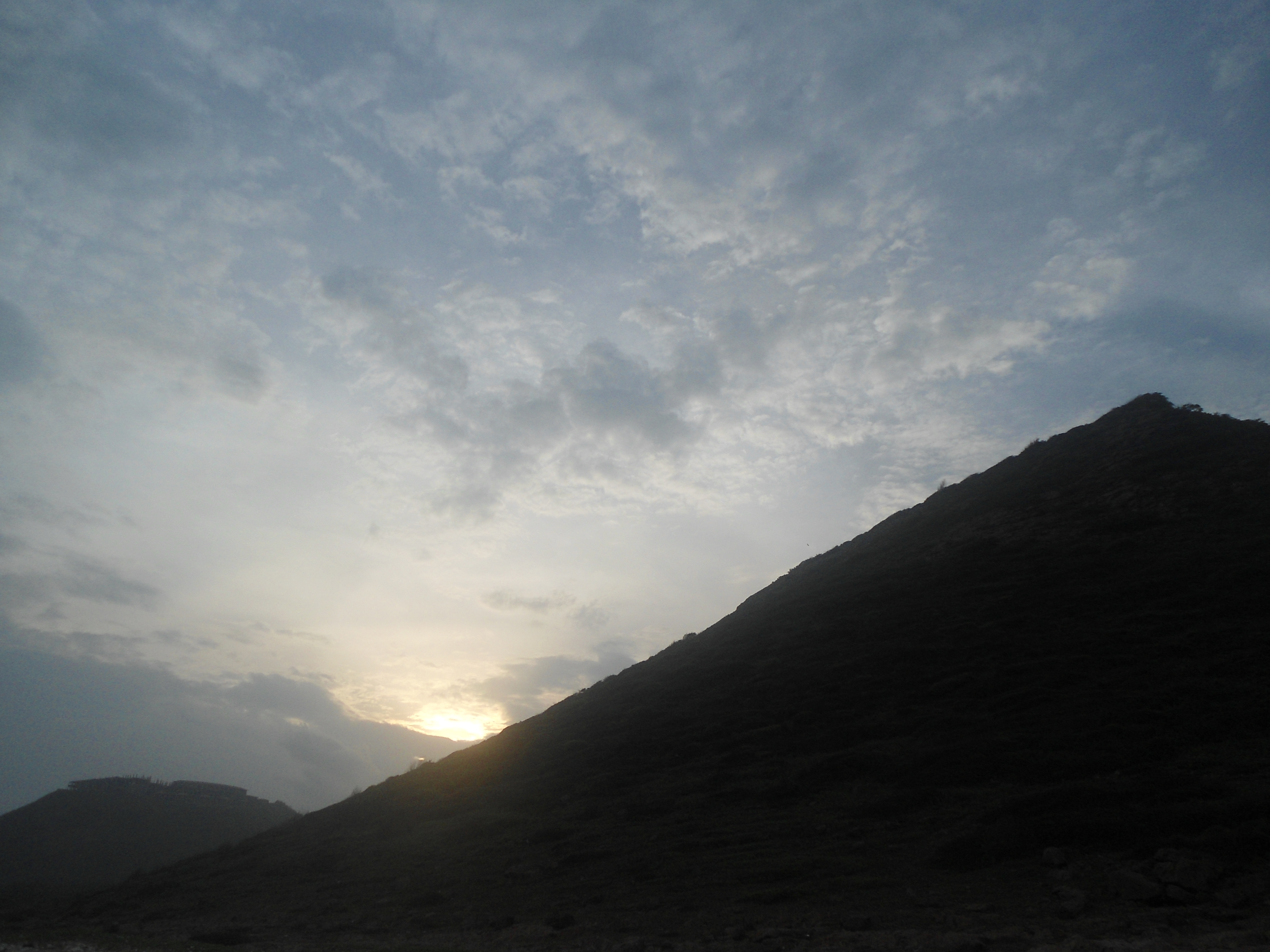 Scenic Sunset view Rushikonda beach in Visakhapatnam